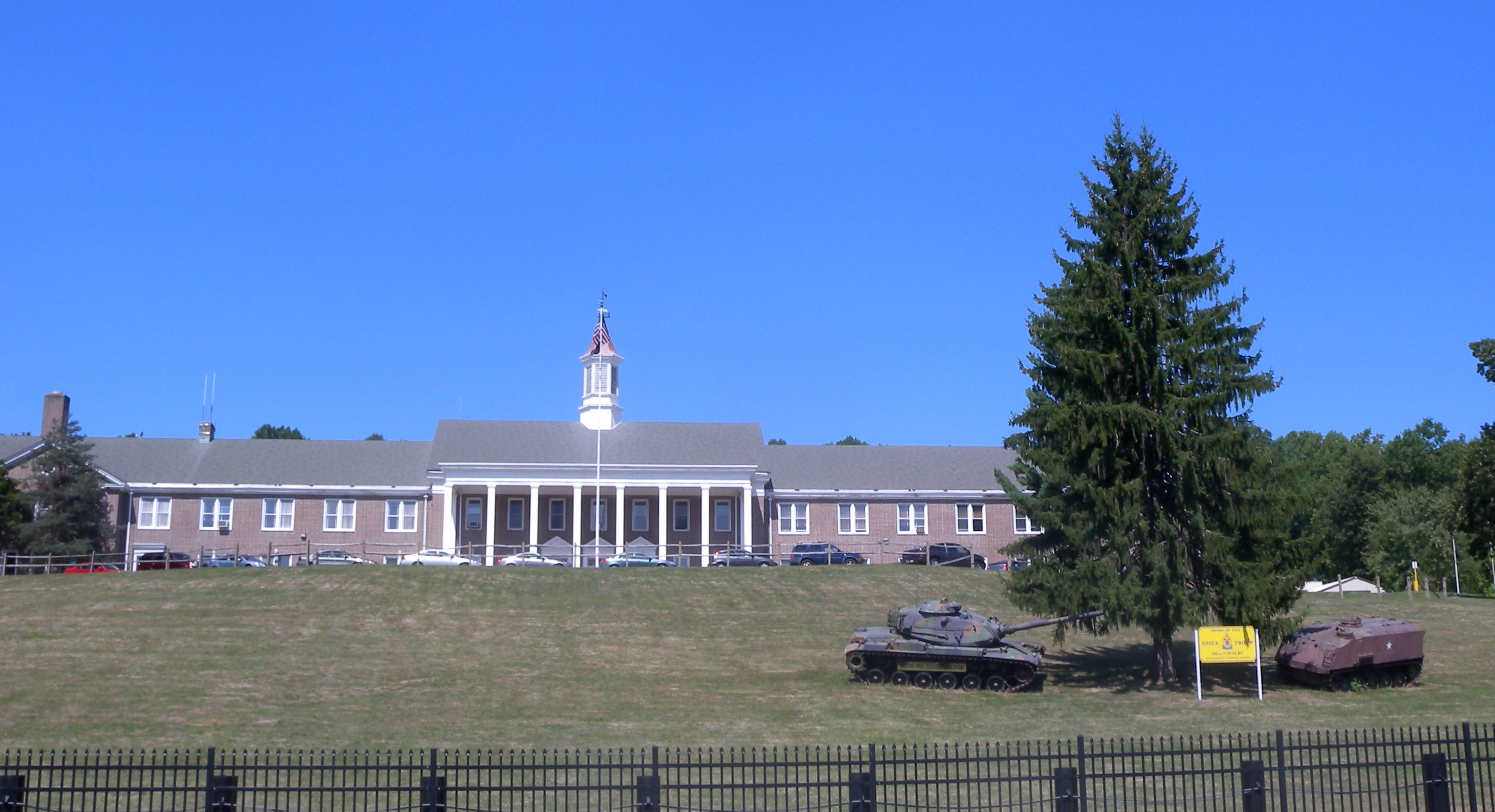 Looking west at Essex Troop armory, 1315 Pleasant Valley Way, on a sunny late morning. ZIP Code 07052.